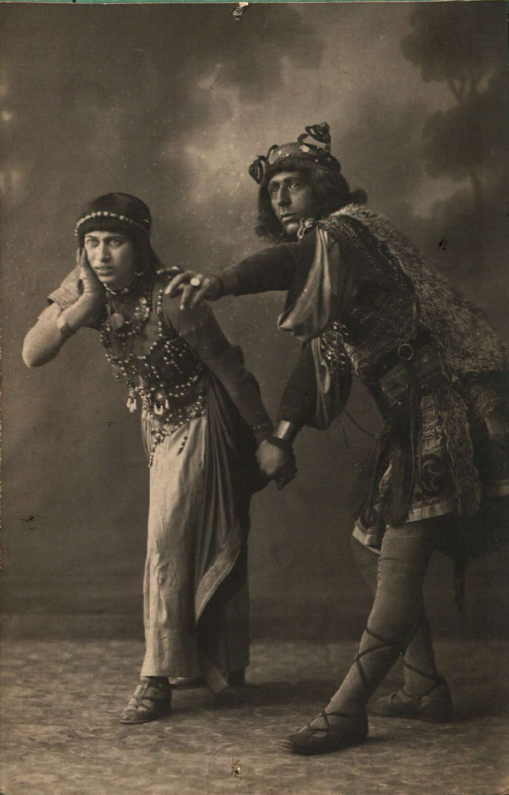 Maria Toromanova and Tsetan Karolev, Aida